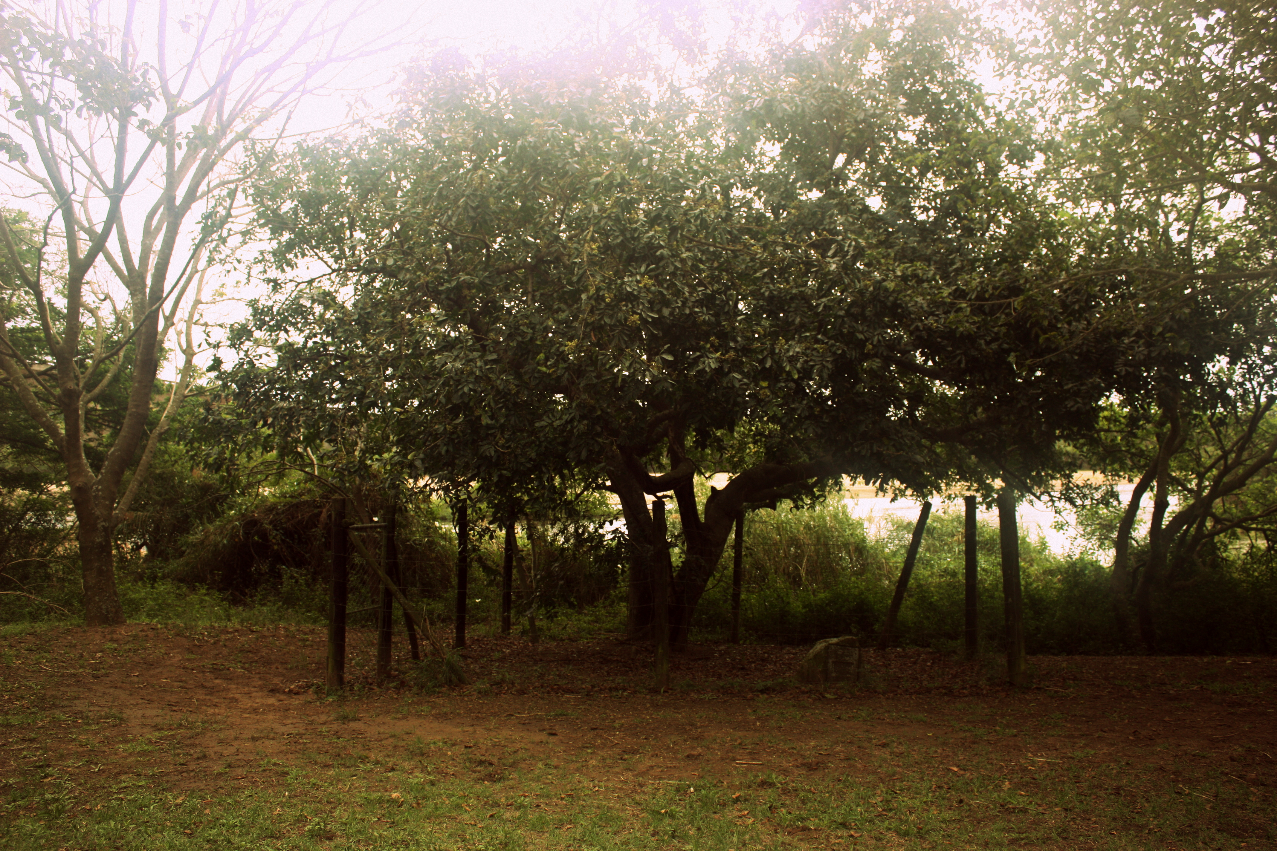 The Ultimatum tree site. Fire and floods damaged the tree over years and a young tree was propagated from the original and planted on the site